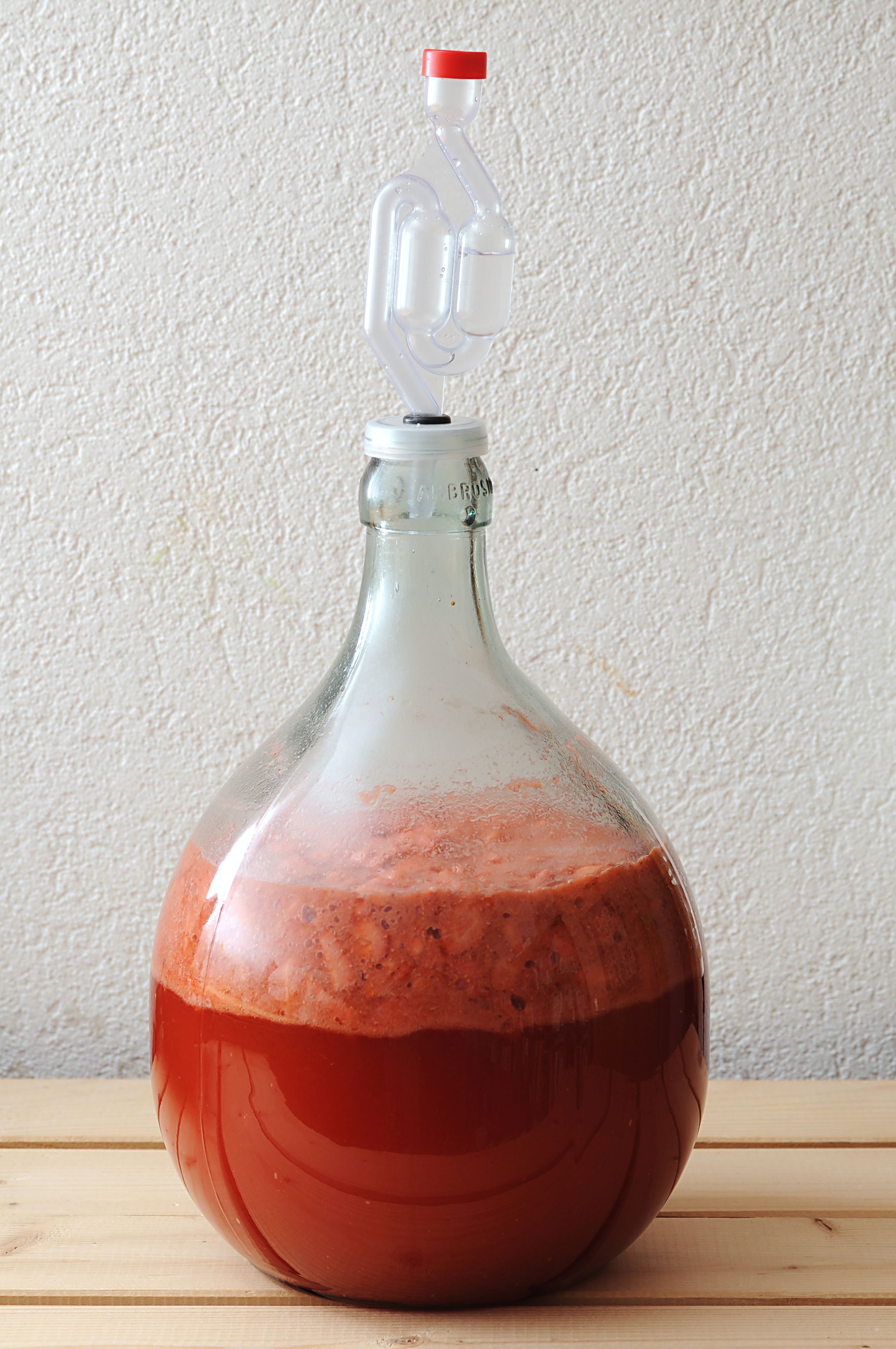 Strawberry wine during fermentation. Consists of about 2 kg strawberries, 0.5 kg sugar, and ingredients: Dry yeast, yeast nutrient salt, lemon acid, pectinase. Filled with water to about 4 l. At the 2nd day of fermentation.